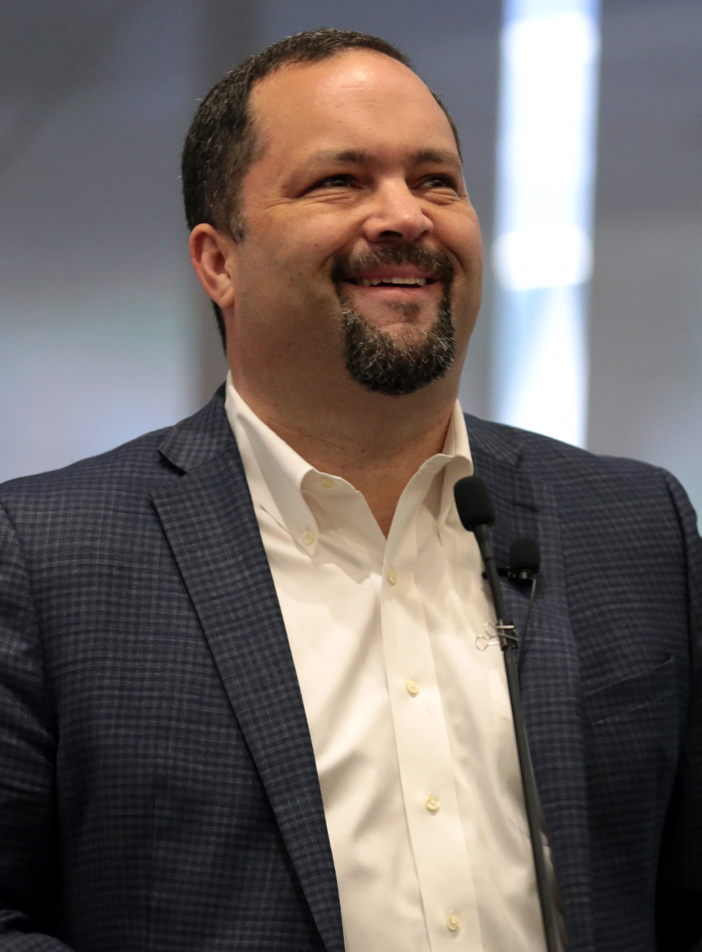 Benjamin Jealous speaking at an event in Phoenix, Arizona.